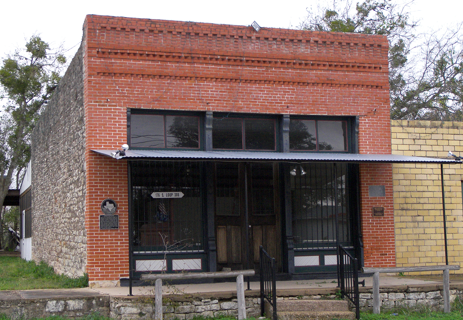 The Briggs State Bank building in Burnet County, Texas, United States. The Briggs State Bank was chartered on May 27, 1909 and this building was constructed the same year. The bank closed in 1928. The property was listed on the National Register of Historic Places on August 11, 2000 and designated a Recorded Texas Historic Landmark in 2002.